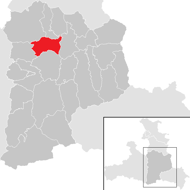 District Sankt Johann im Pongau